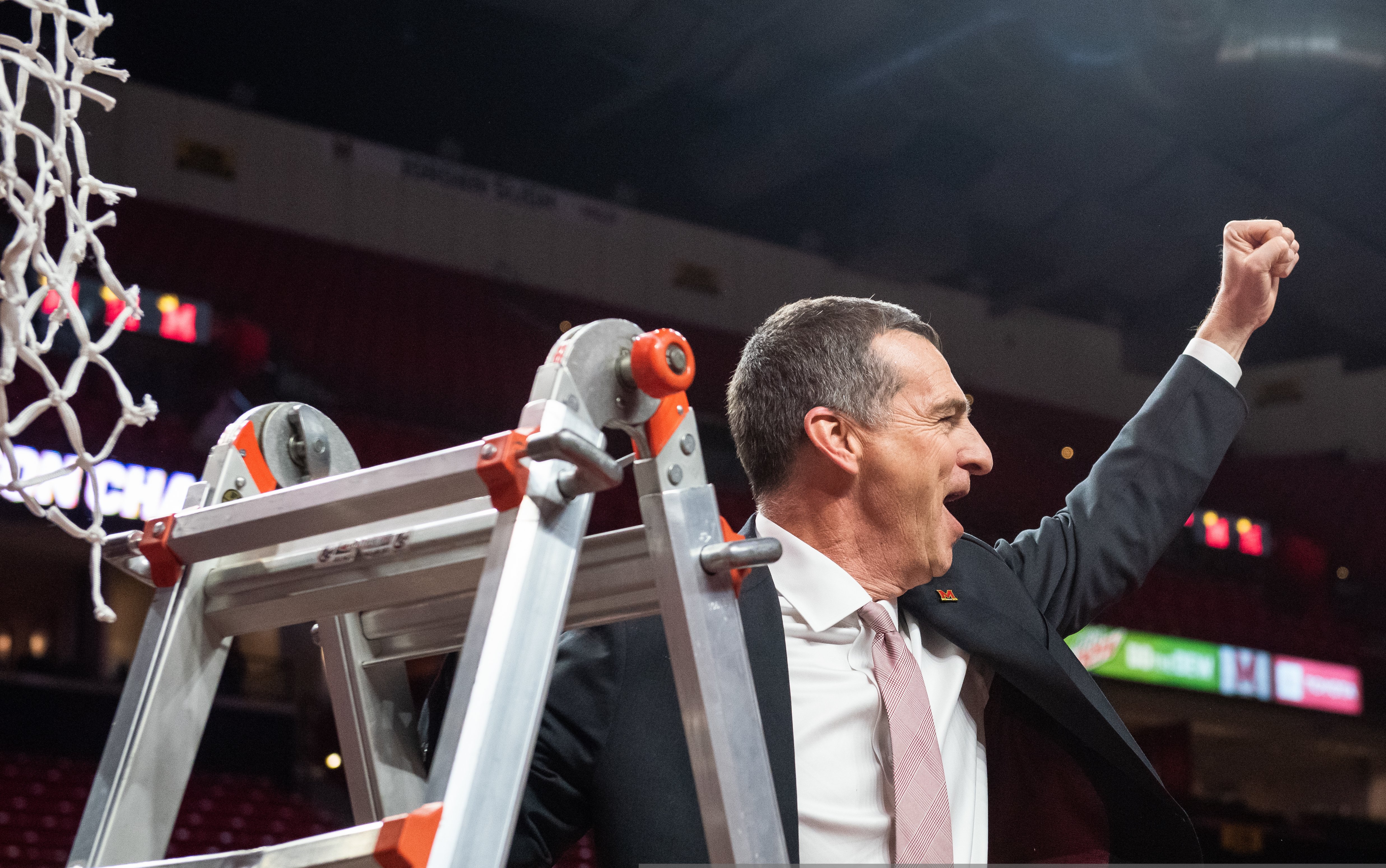 Maryland coach Mark Turgeon cutting down the net